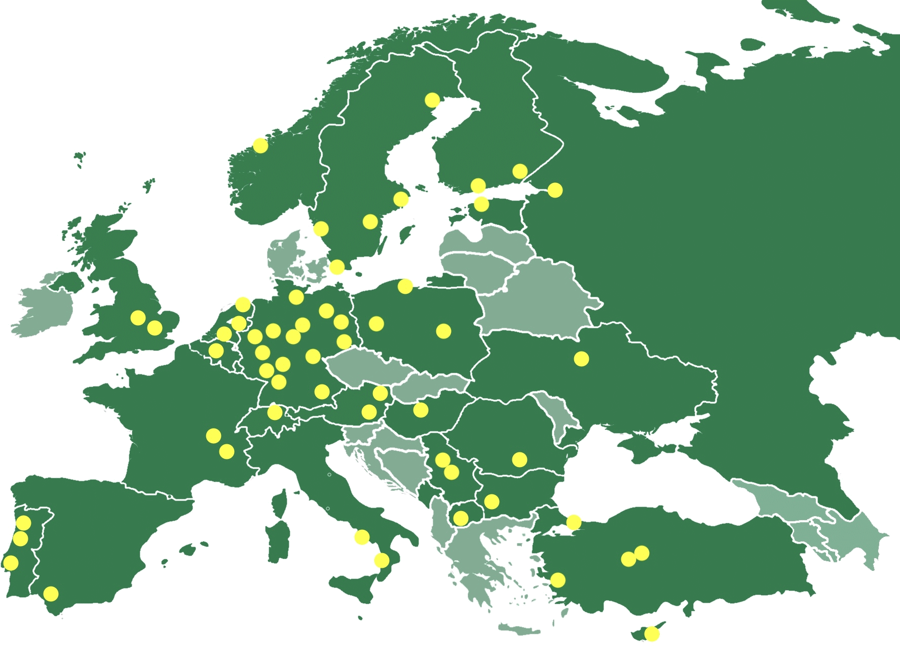 Map of all Local Groups within ESTIEM in Europe.